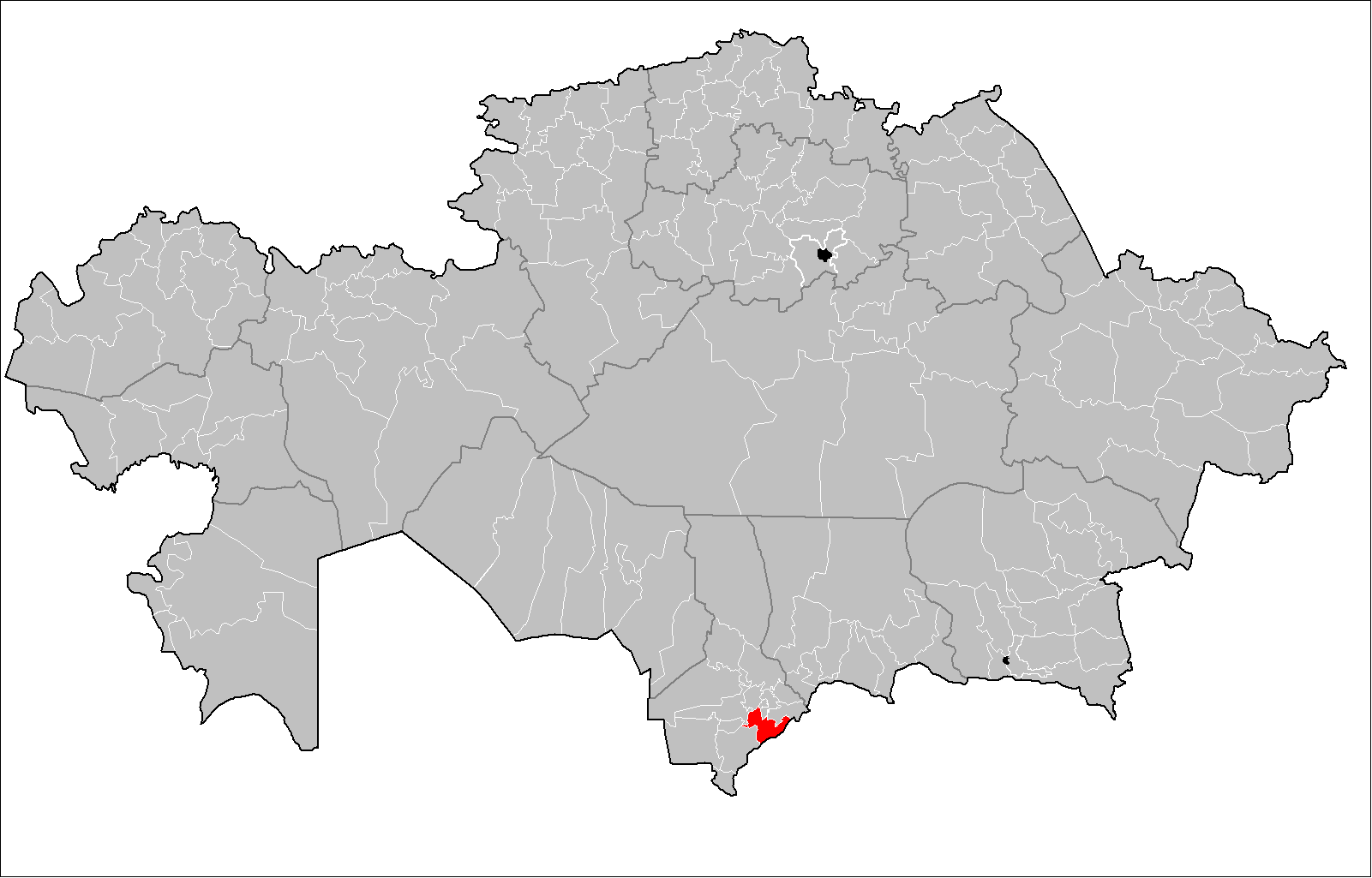 Map of the rayons of Kazakhstan. Created by Rarelibra 16:49, 3 August 2007 (UTC) for public domain use, using MapInfo Professional v8.5 and various mapping resources.